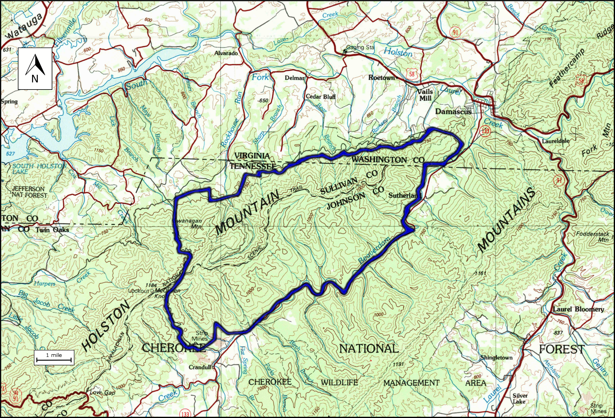 Boundary of the Beaverdam Creek wildland in the Jefferson National Forest and Cherokee National Forest as identified by the Wilderness Society